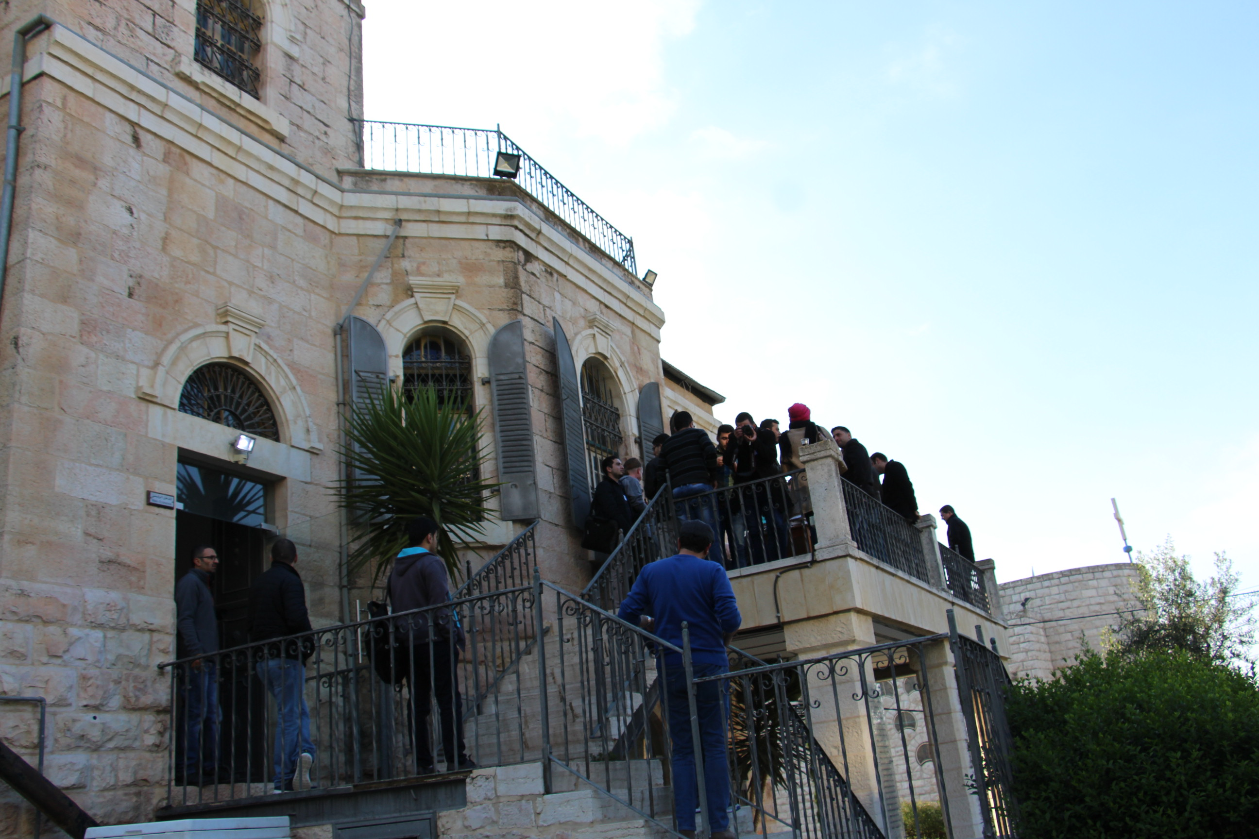 Meetup of Wikimedia Tech employees and volunteers with Palestinian developers at Khalil Sakakini Cultural Center in Ramallah. Event organized by Wikimedians of the Levant User Group and Nablus Tech Meetups